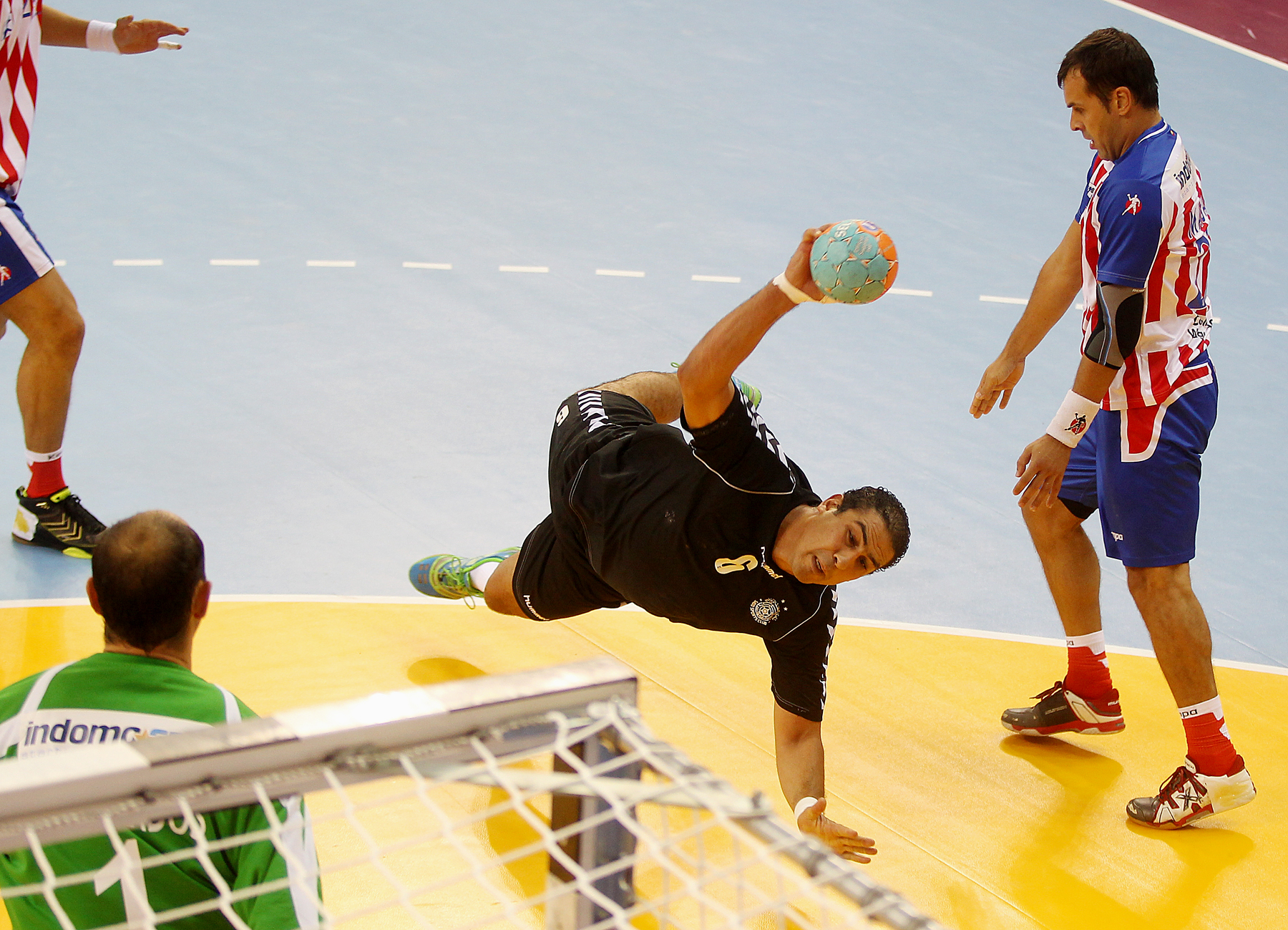 Al Sadd's Tunisian player Issam tej in action against Atletico madrid in the IHF Super Globe at the Al Gharafa Indoor Hall in Doha. Picture by Mohan